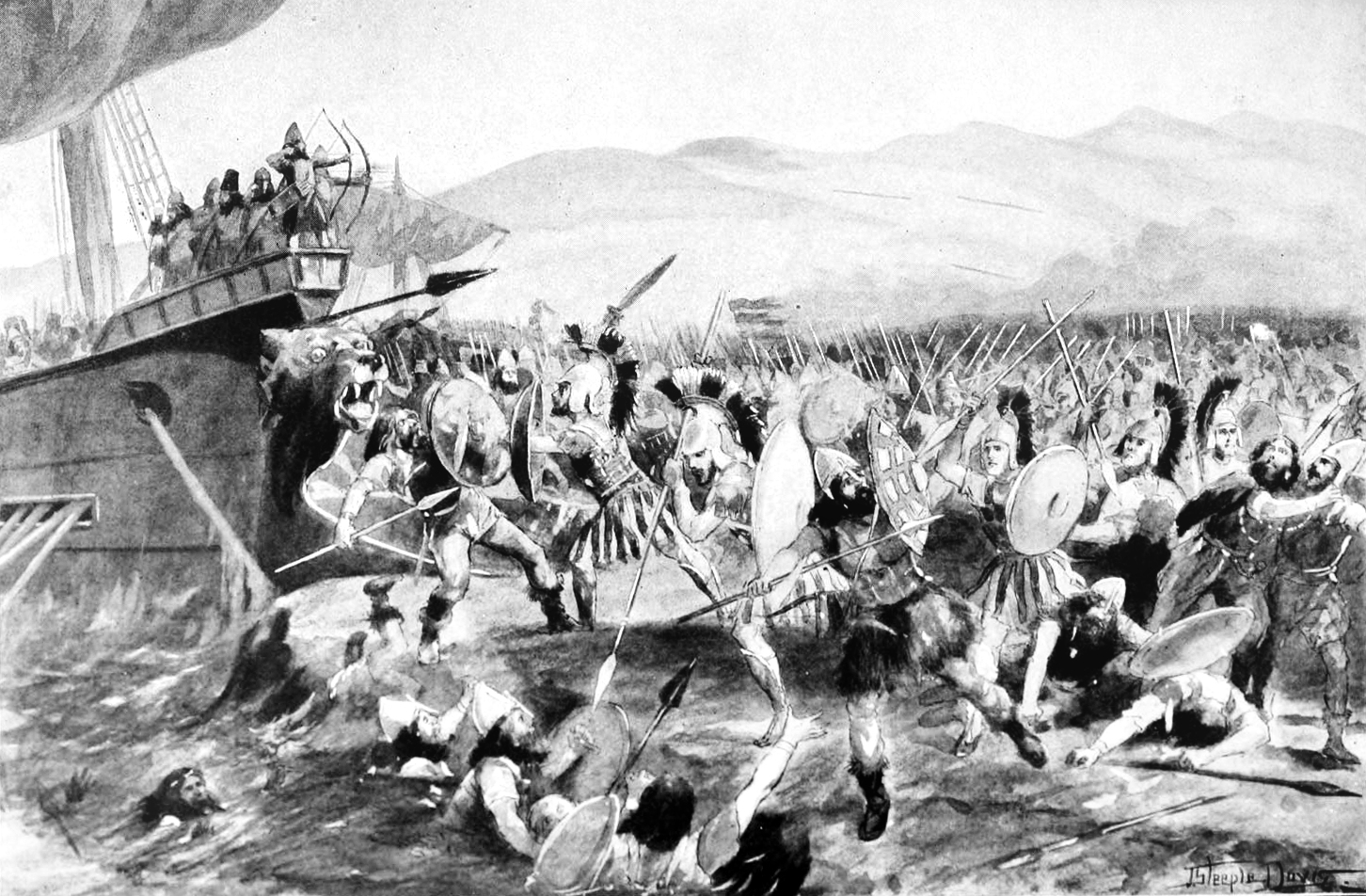 Scene of the Battle of Marathon